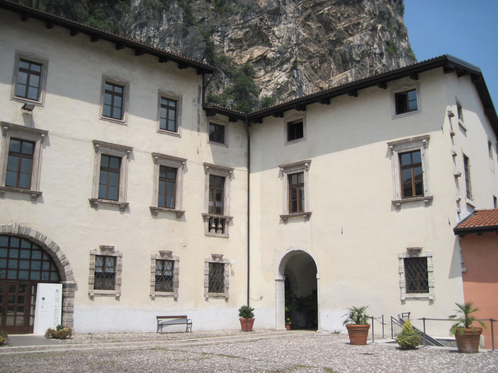 Panni palace